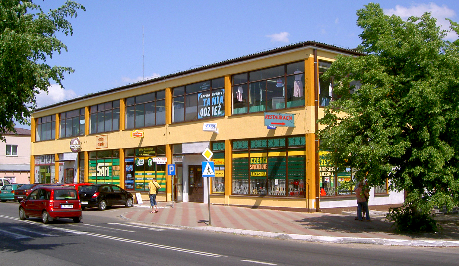 Tarnogród, Poland, shopping mall.